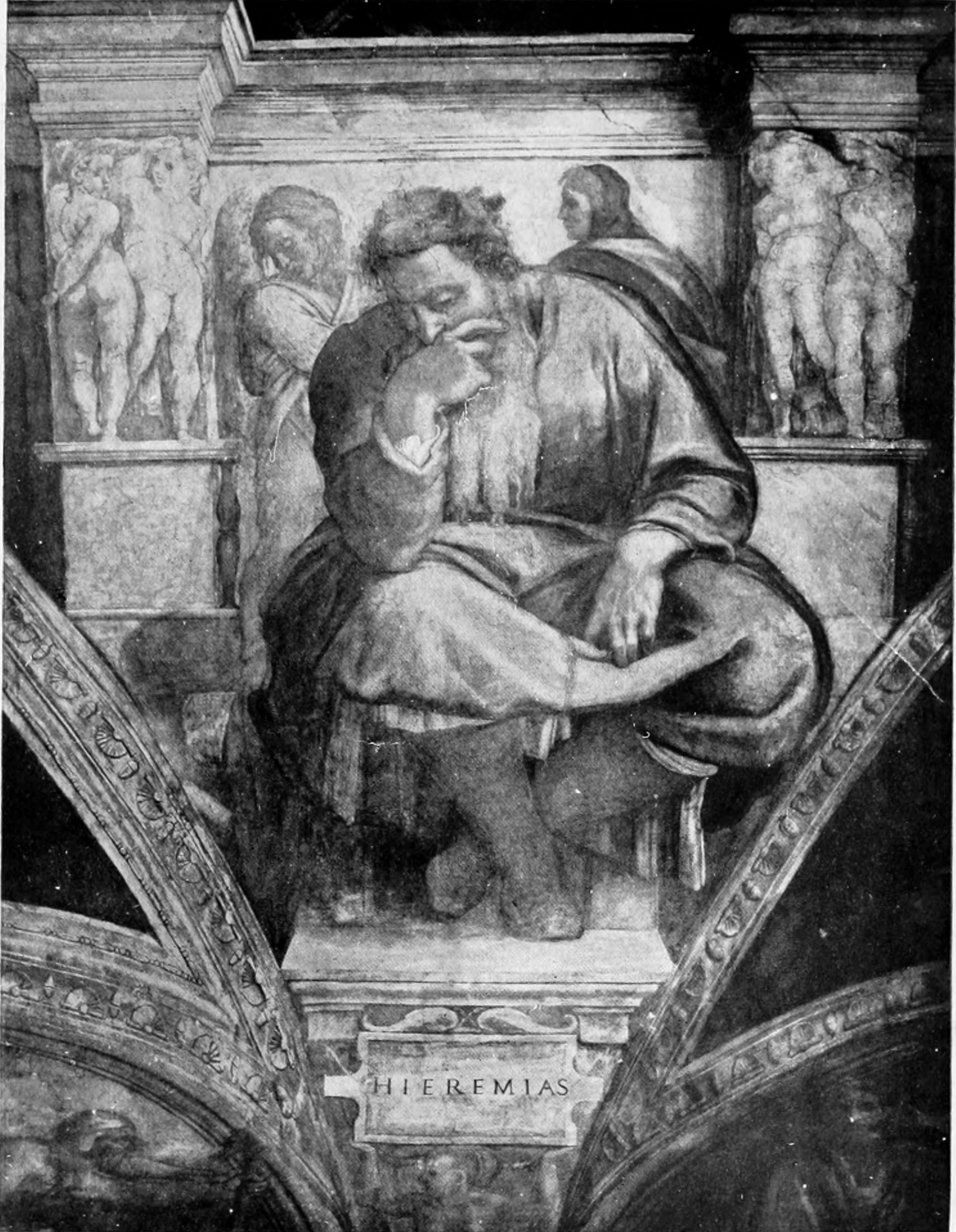 Illustrations from The Life of Michael Angelo by Romain Rolland, translated by Frederic Lees: The Prophet Jeremiah